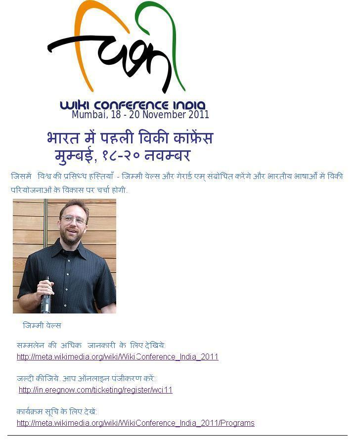 This is the Hindi Poster designed to promote Wiki Conference India